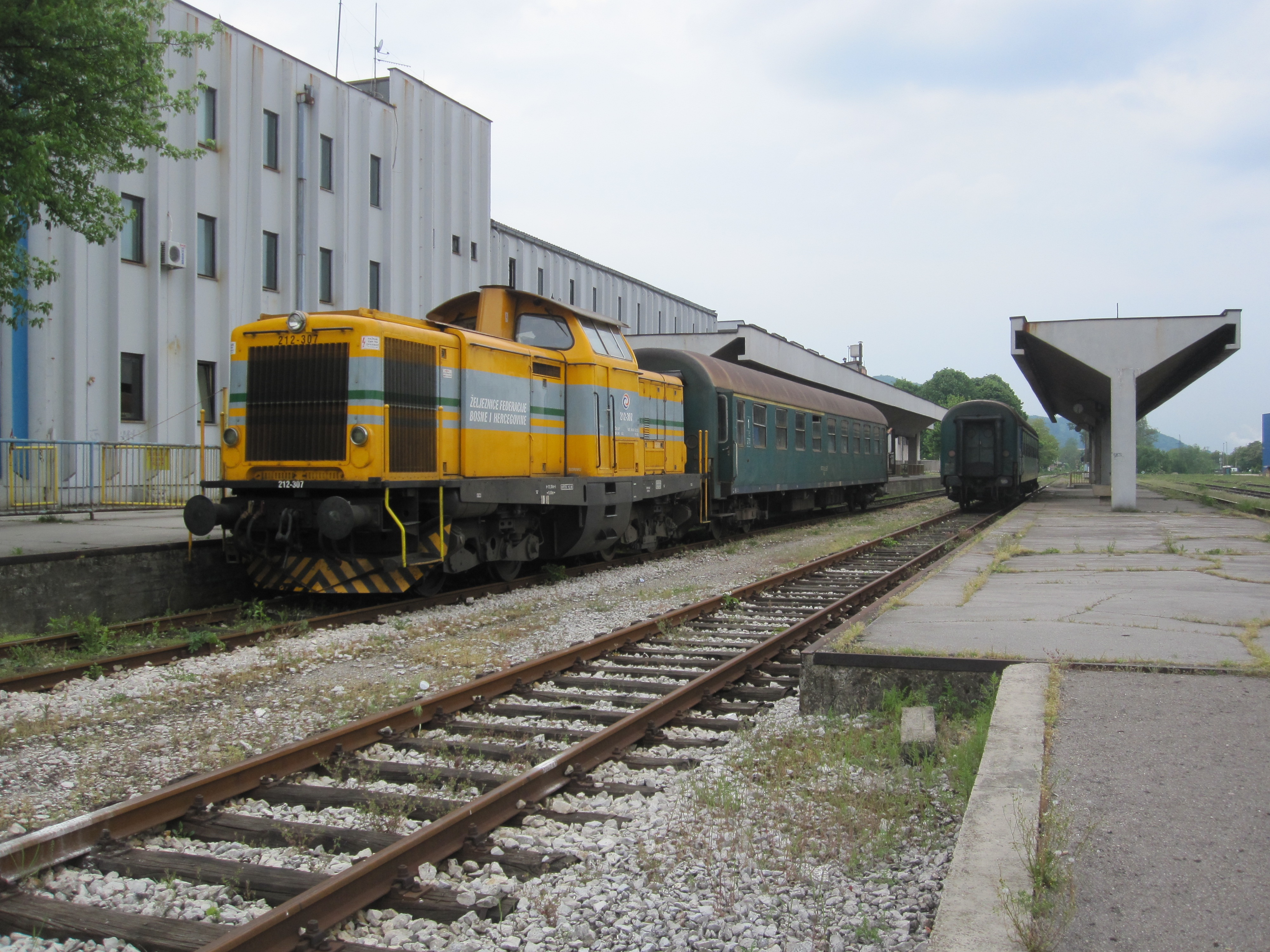 Journeys end at Tuzla.